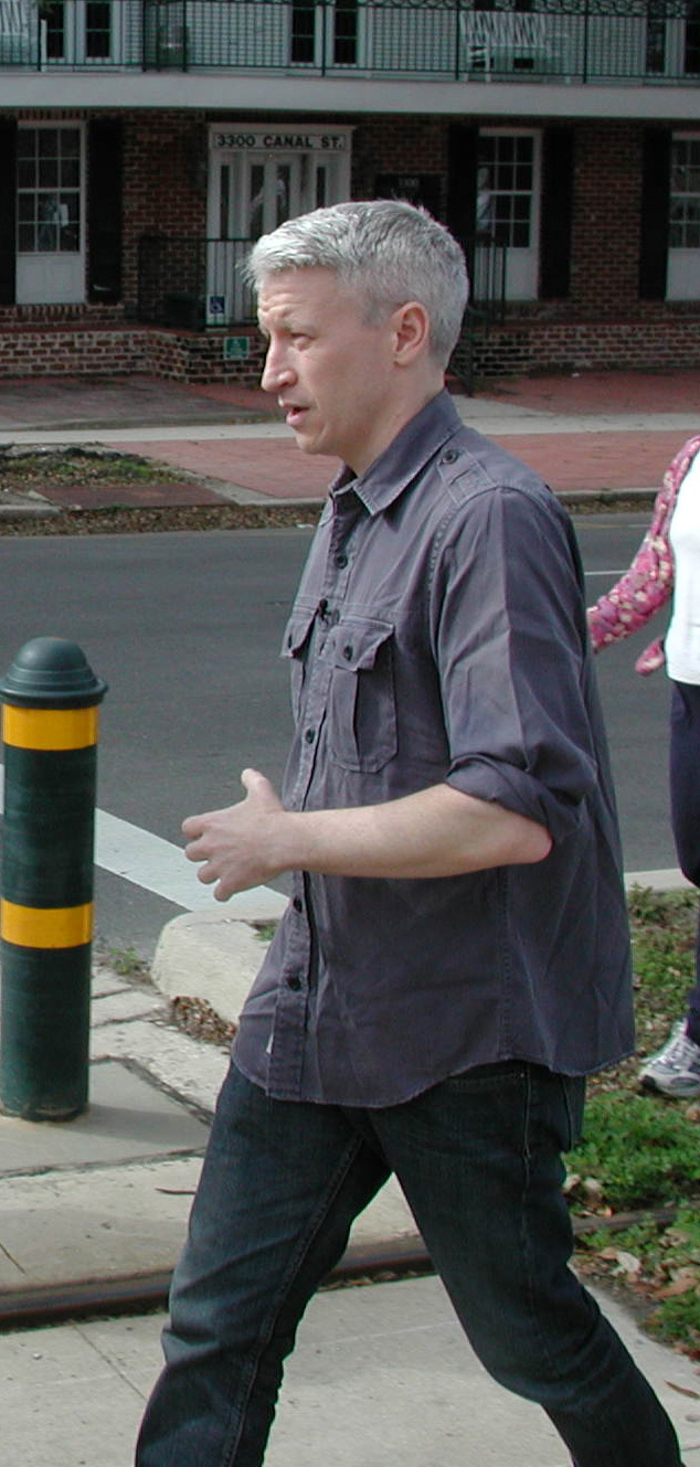 Anderson Cooper marching on January 11, 2007 in New Orleans against violence.